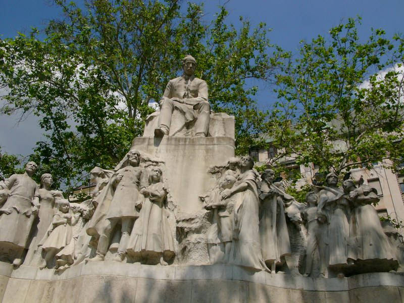 Statue of Vörösmarty on Vörösmarty tér in Budapest, Hungary. Sculptors: Ede Kallós and Ede Telcs (1908)